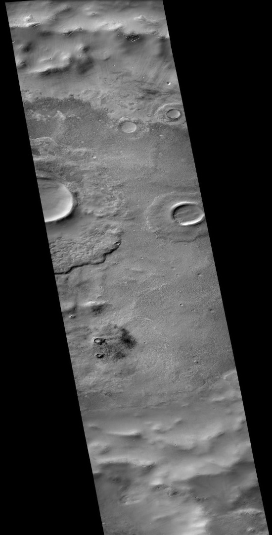 Tikhov Crater, as seen by CTX